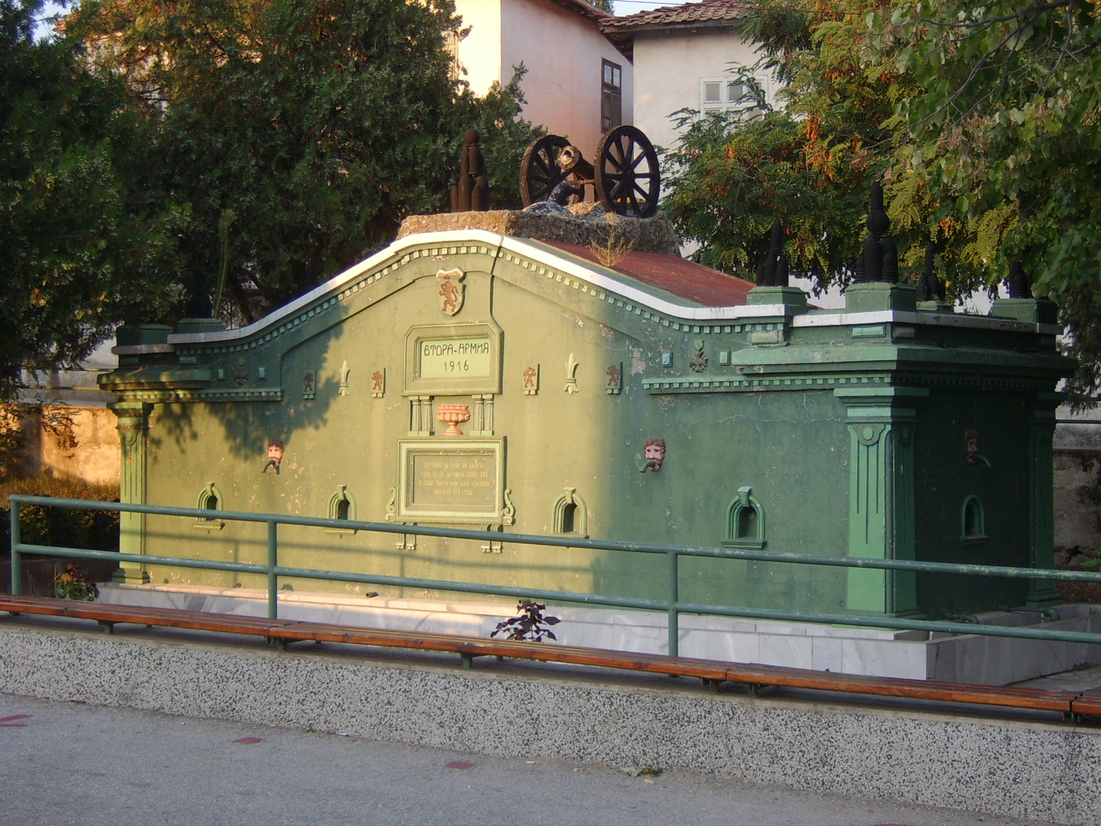 Monument "Golqmata cheshma" in Levunovo, Bulgaria.